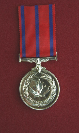 An image of the Medal of Bravery.